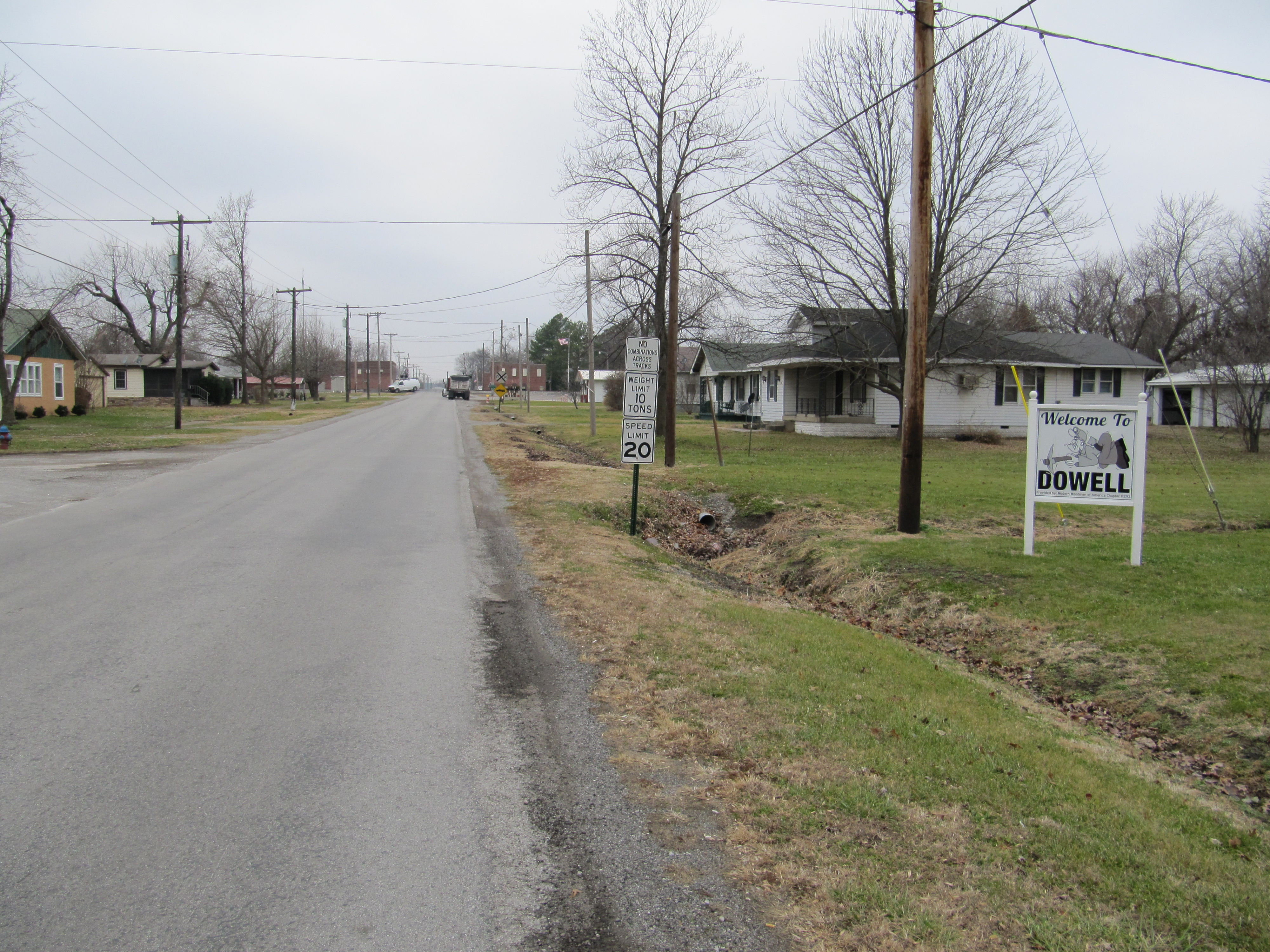 Entering Dowell, IL: 100 block of Union Street